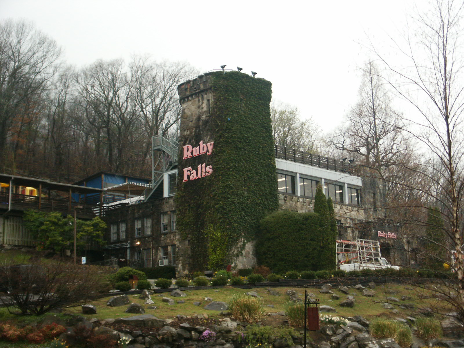 Ruby Falls Visitor Center, near Chattanooga, Tennessee in the United States